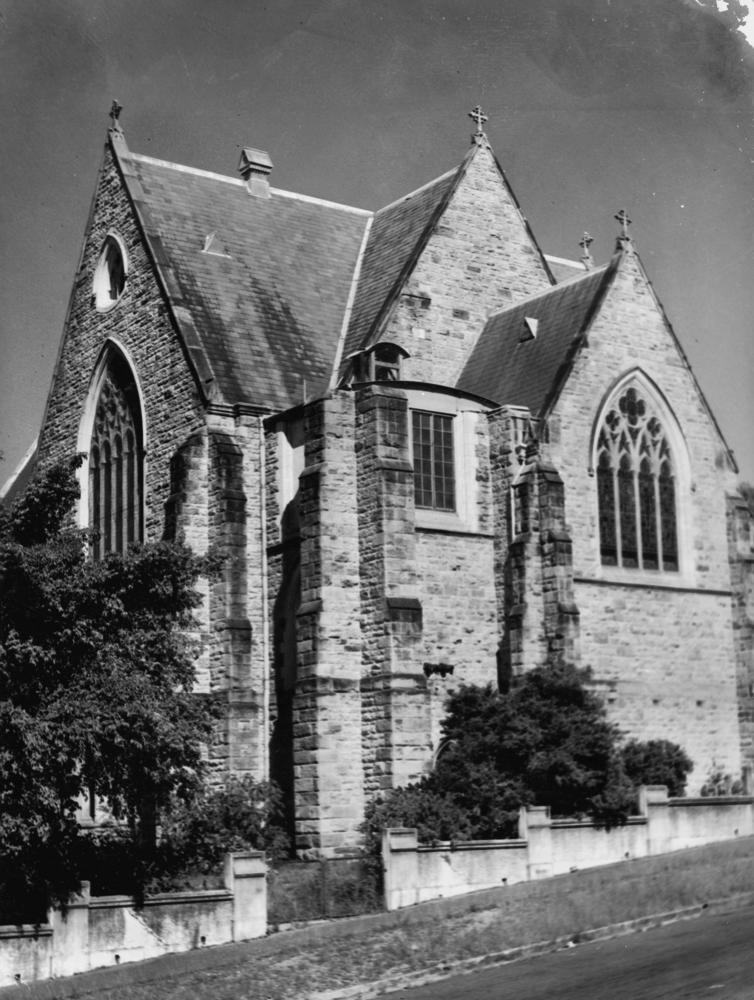 St. Andrew's Church of England, South Brisbane, 1947 St. Andrew's is a large, gothic-style limestone church with particularly fine stained glass windows. It was constructed in several stages: 1878-83, 1887, and 1931-32. The church was designed by Italian architect Andrea Stombuco. Work commenced in 1878 but was abandoned when the walls reached only 6 feet as the design proved beyond the financial means of the parish. Work did not resume until 1882 and in the following year the chancel, transepts and the first bay of the nave were completed by the builder James O'Keeffe.